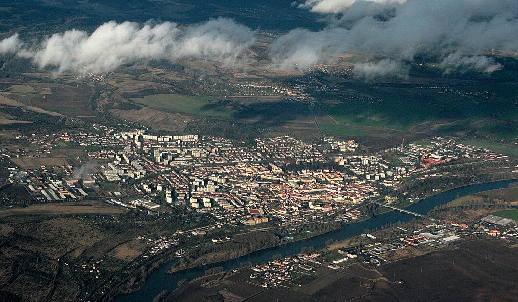 Aerial view of Litoměřice from the southwest. The town is situated on right bank of the Elbe facing its conflunence with the Ohří (just right of the bridge). On the left baank in the foreground village of Mlékojedy, in the middle beyond the town village of Žitenice.